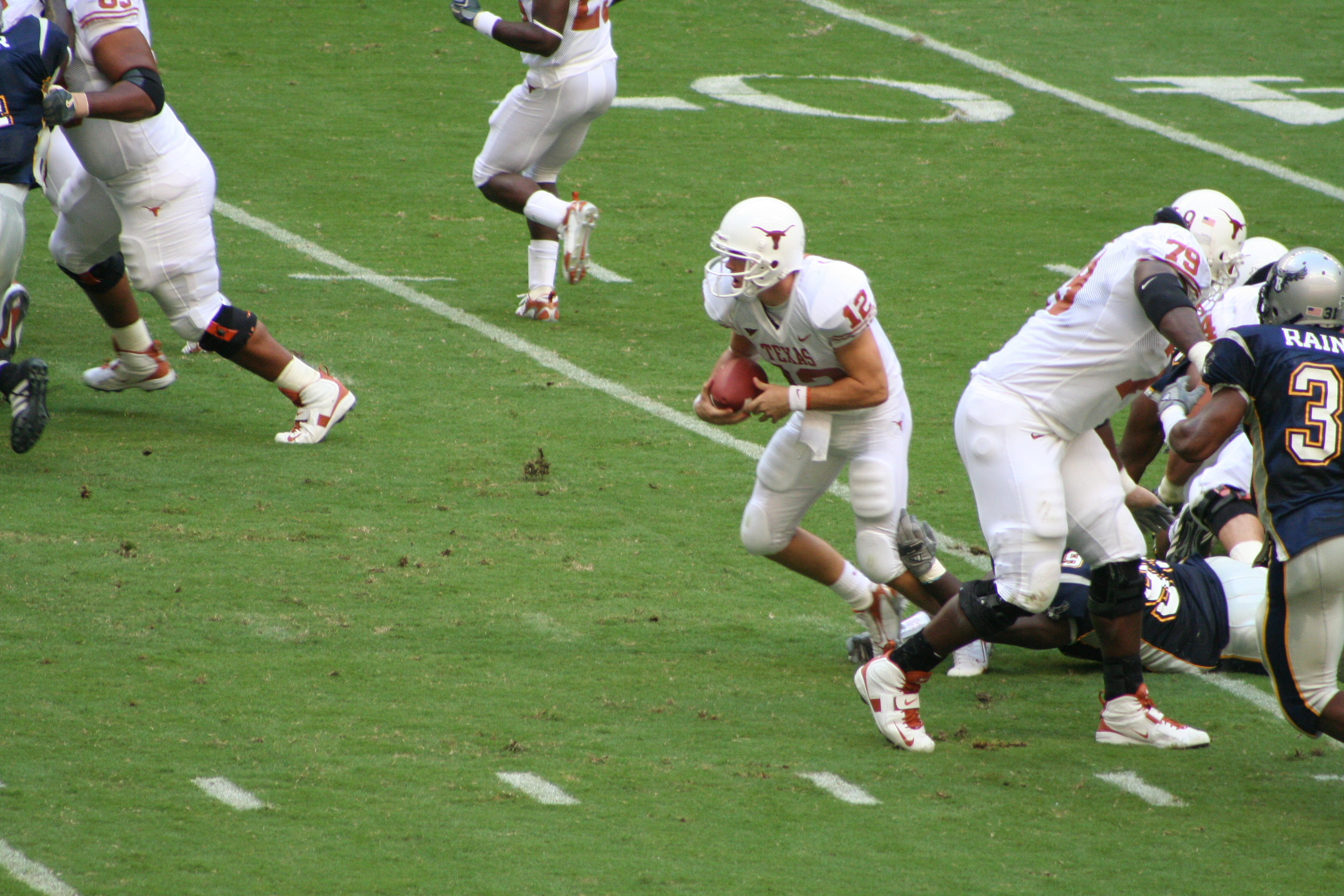 Colt McCoy prepping for the man train during a College football game - The University of Texas Longhorns vs the Rice University Owls, 16 September 2006.